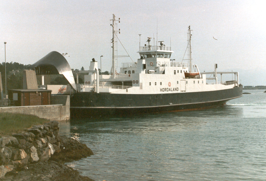 MF Hordaland (built 1979) at Skjersholmane in the early 1990s.